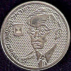 Reverse side of the 100 Israeli sheqel coin depicting Vladimir Zeev Jabotinsky